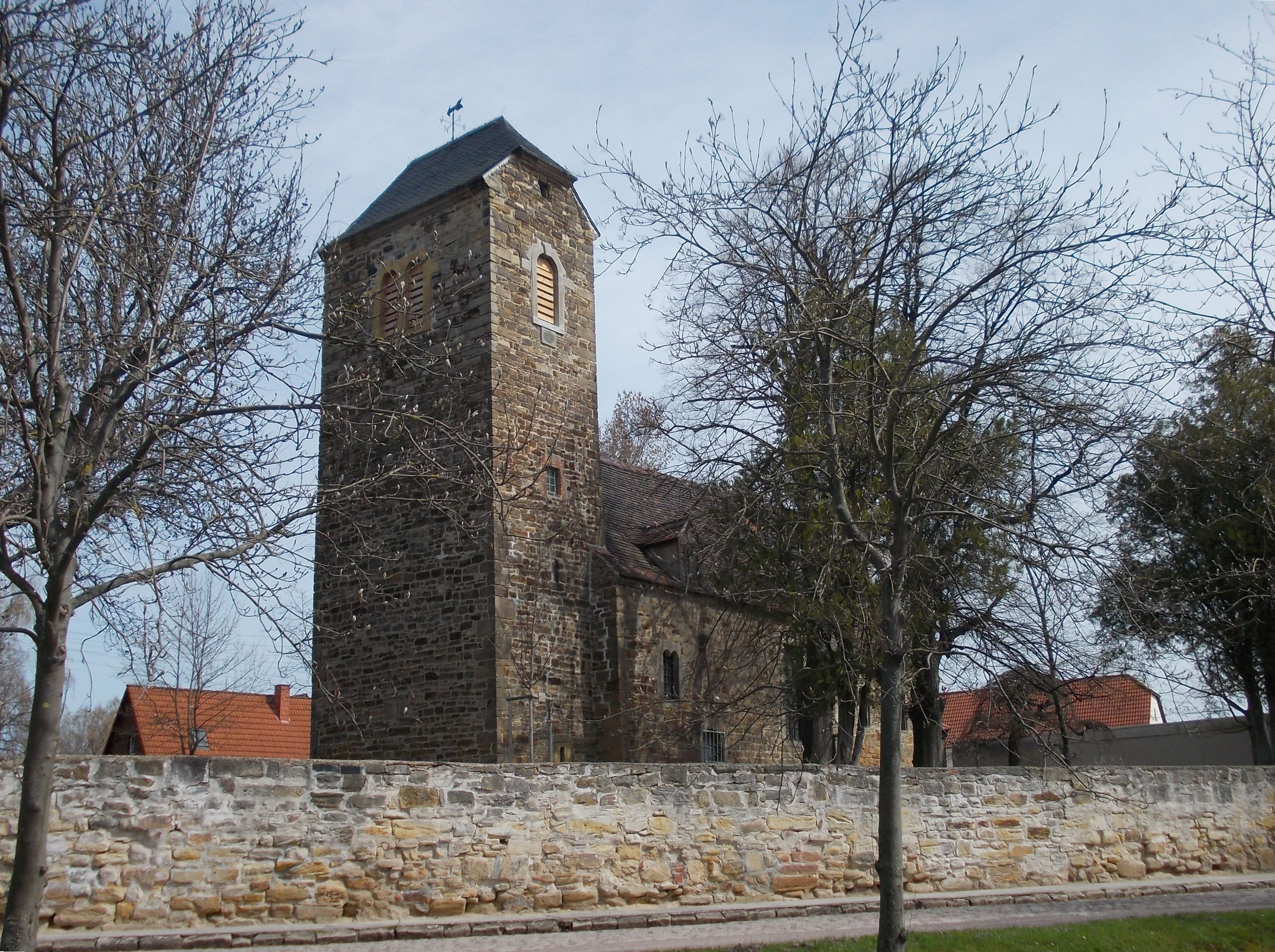 Schotterey church (Bad Lauchstädt, district of Saalekreis, Saxony-Anhalt)